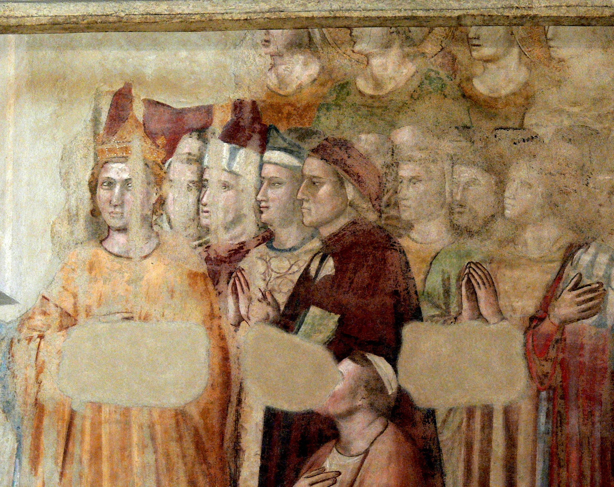 Museo del Bargello ( Florence ). Saint Mary Magdalene chapel: Fresco of Paradise ( 14th century ) by Giotto - Detail with oldest portrait of Dante Alighieri.